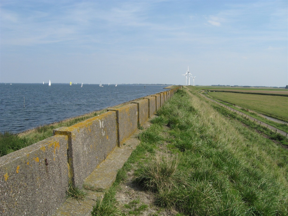 Muraltmuur, 1 meter high walls placed on dikes in the Dutch province Zeeland